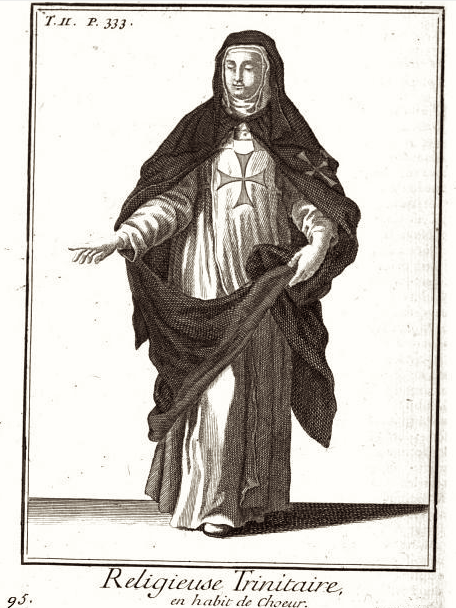 trinitarian sister